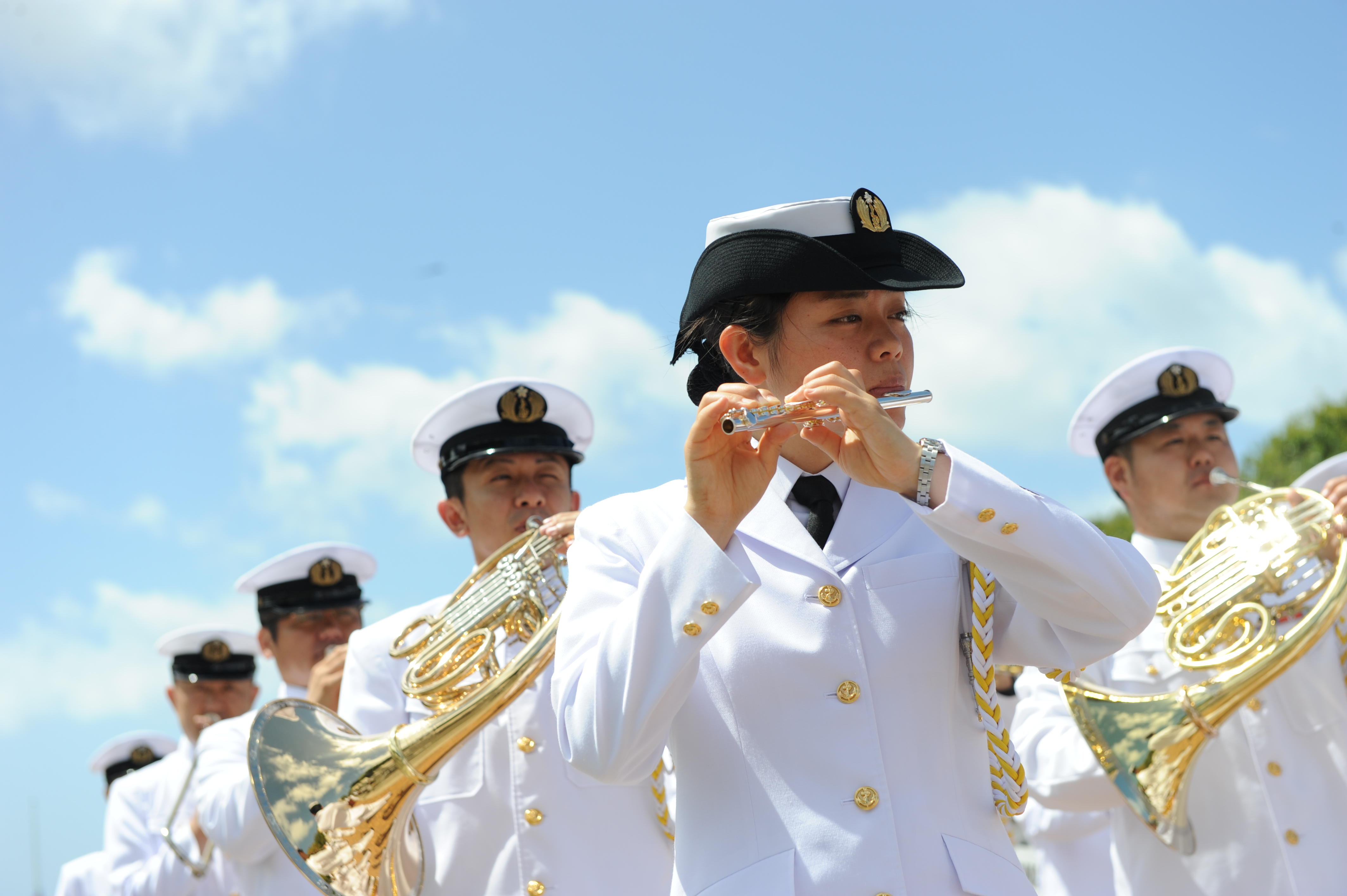 HONOLULU, Hawaii - The Japanese Maritime Self-Defense Force (JMSDF) band plays the Japanese National Anthem during a wreath ceremony at the National Memorial Cemetery of the Pacific in Honolulu, Hawaii on June 9, 2010. The junior officers of the JMSDF are on a training mission in which they will visit 16 ports in 12 countries in a span of 156 days and Hawaii was their first stop on this trip. (U.S. Air Force photo/Tech Sgt. Cohen A. Young) Nikon D3